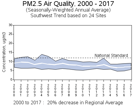 A graph of particulate levels in the atmosphere as determined by the US Environmental Protection Agency